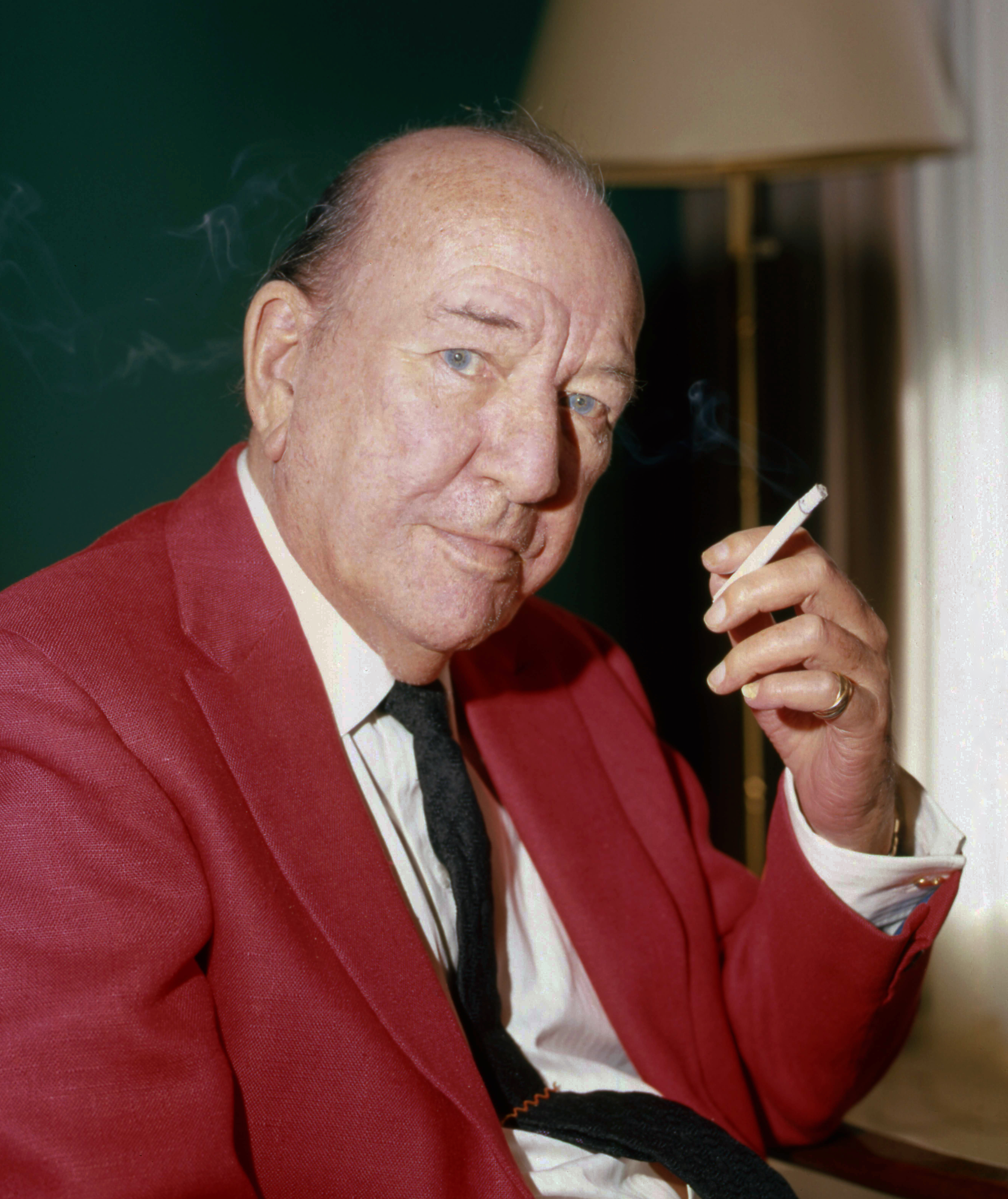 Sir Noel Coward in his dining room les Avants Switzerland